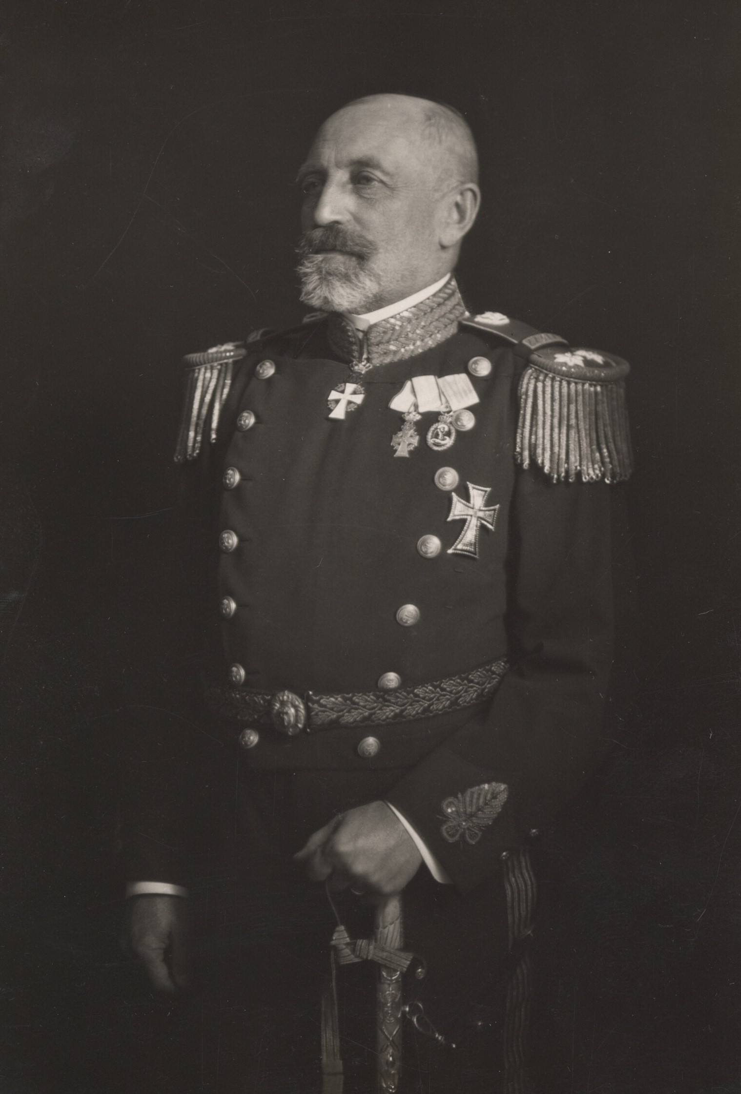 Henri Konow (1862-1939), Danish Vice Admiral, Foreign Minister, Minister for the Royal Navy, and last governor of the Danish West Indies (1916-17)